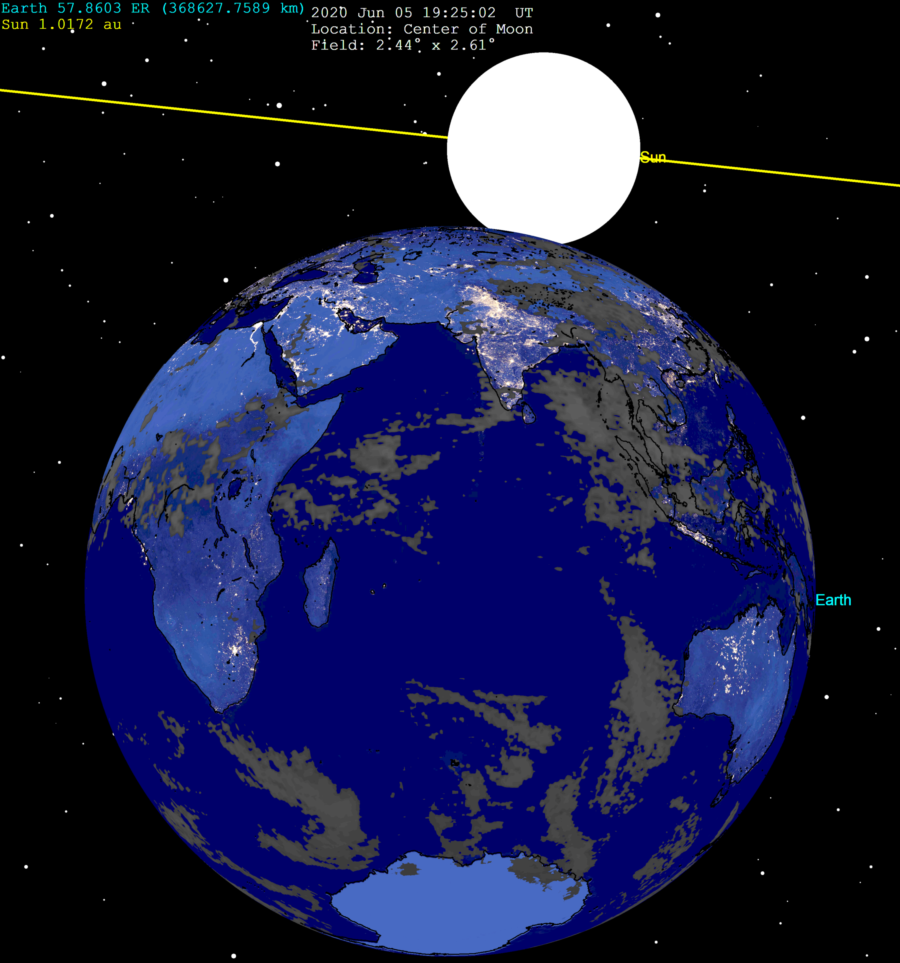 June 2020_lunar_eclipse view of earth The orientation of the earth as viewed from the center of the moon during greatest eclipse.